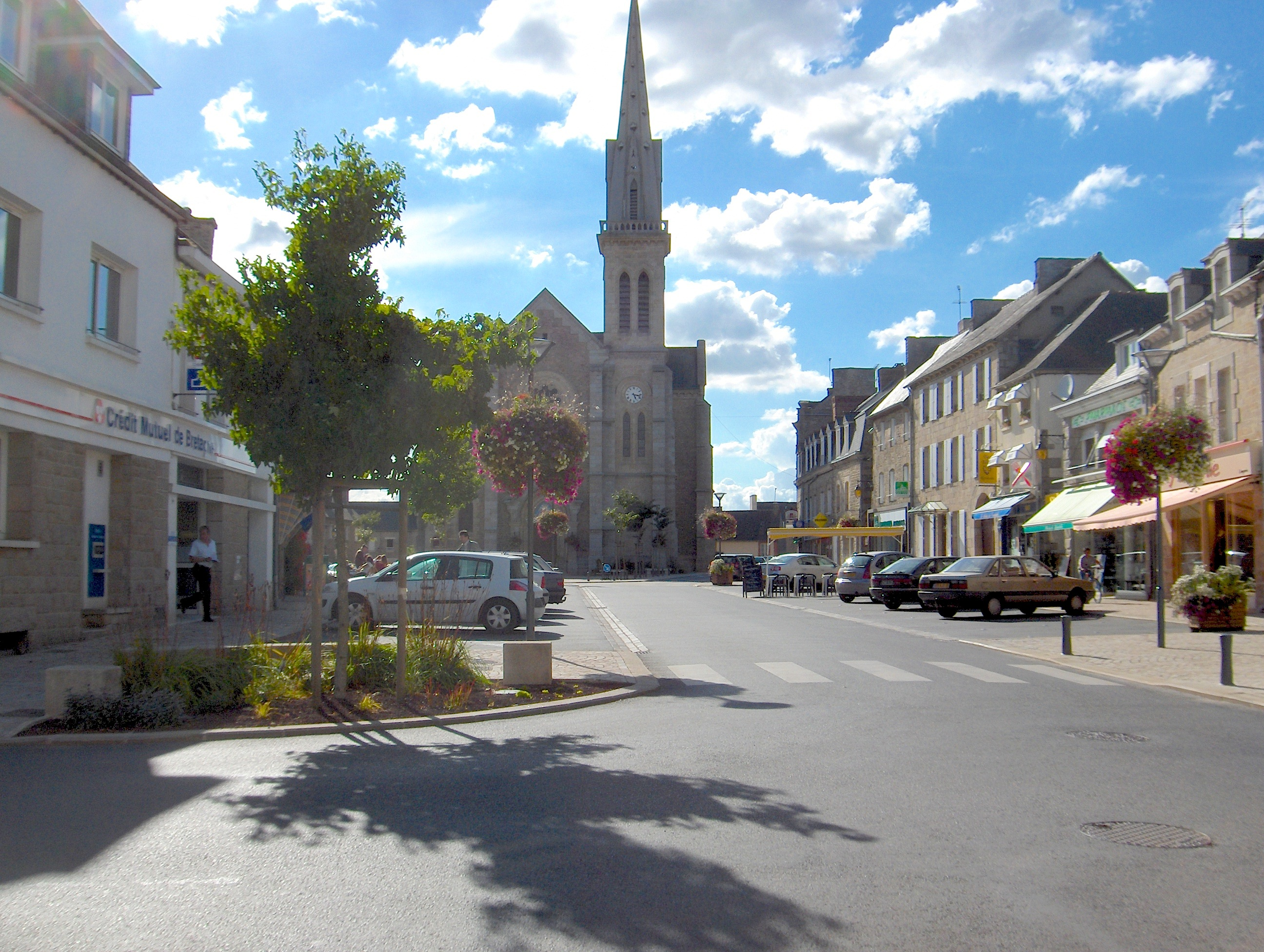 Broons's town place.